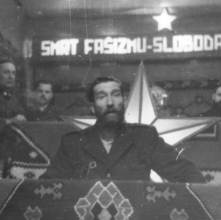 Vlado Zečević in Mrkonjič grad